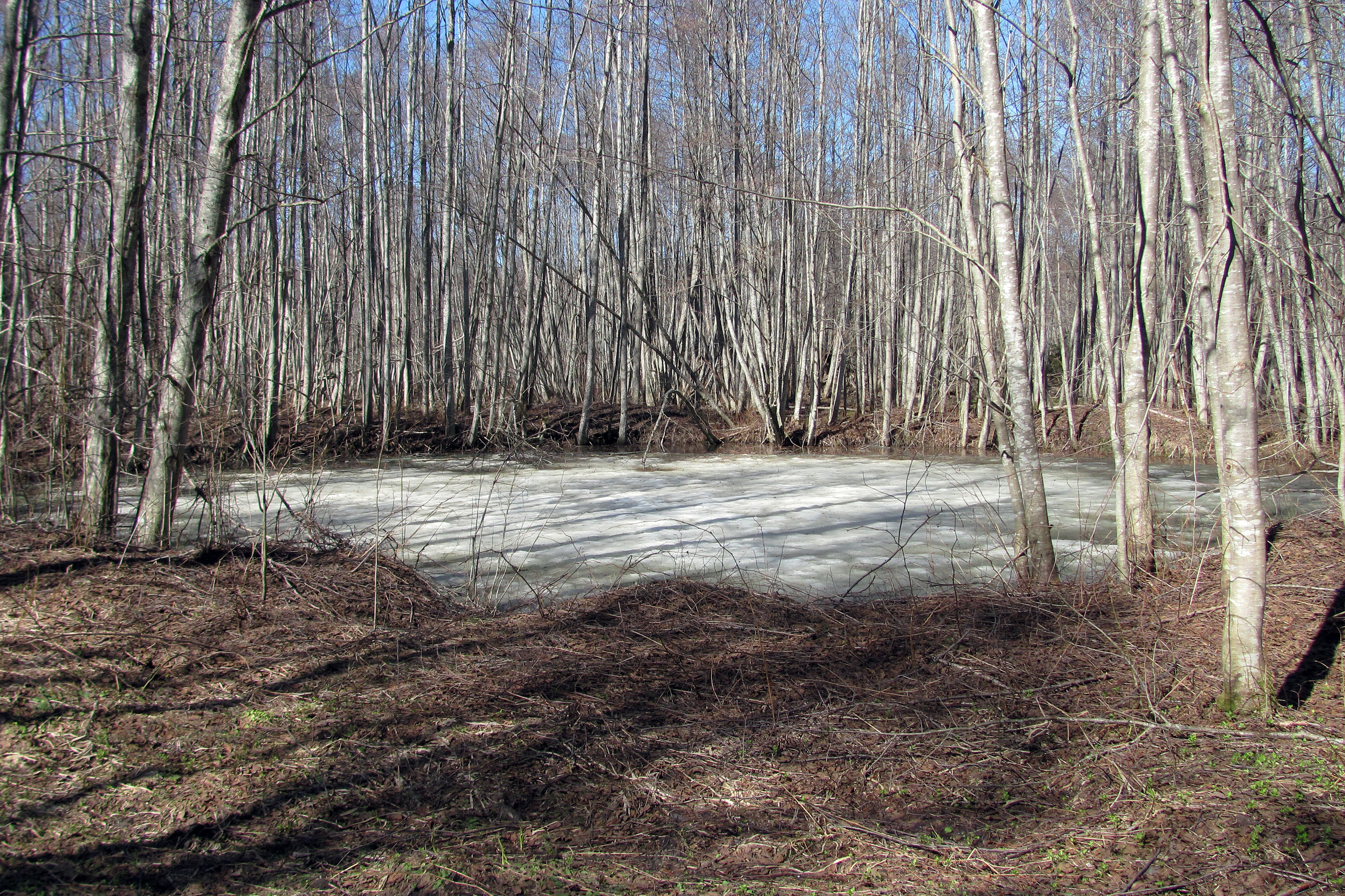 Bomb crater in Alam-Pedja Nature Reserve, Estonia.